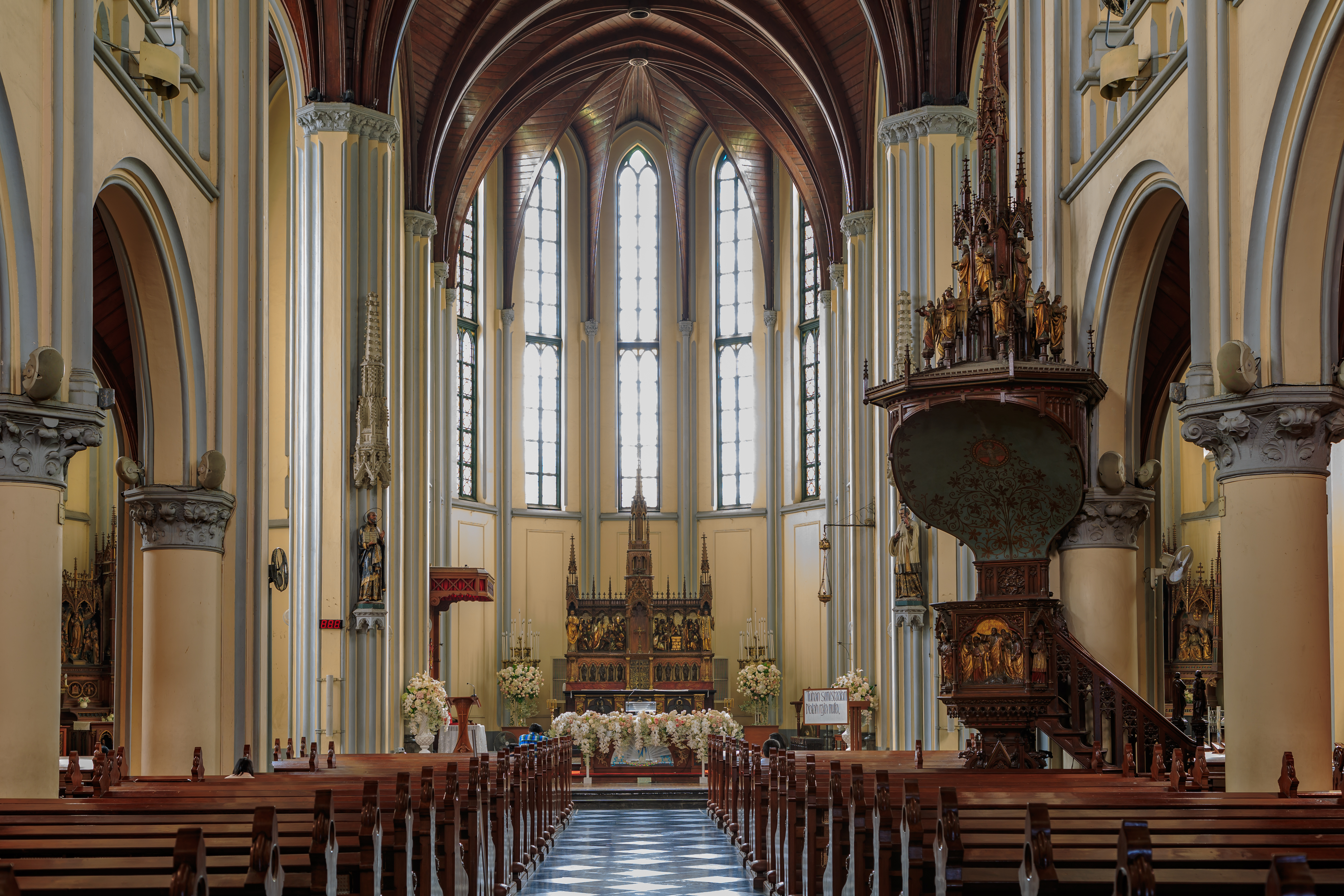 Jakarta, Indonesia: Interior view of the Jakarta Cathedral "De Kerk van Onze Lieve Vrowe ten Hemelopneming - The Church of Our Lady of the Assumption" .